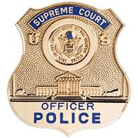 Badge of a US Supreme Court Police Officer